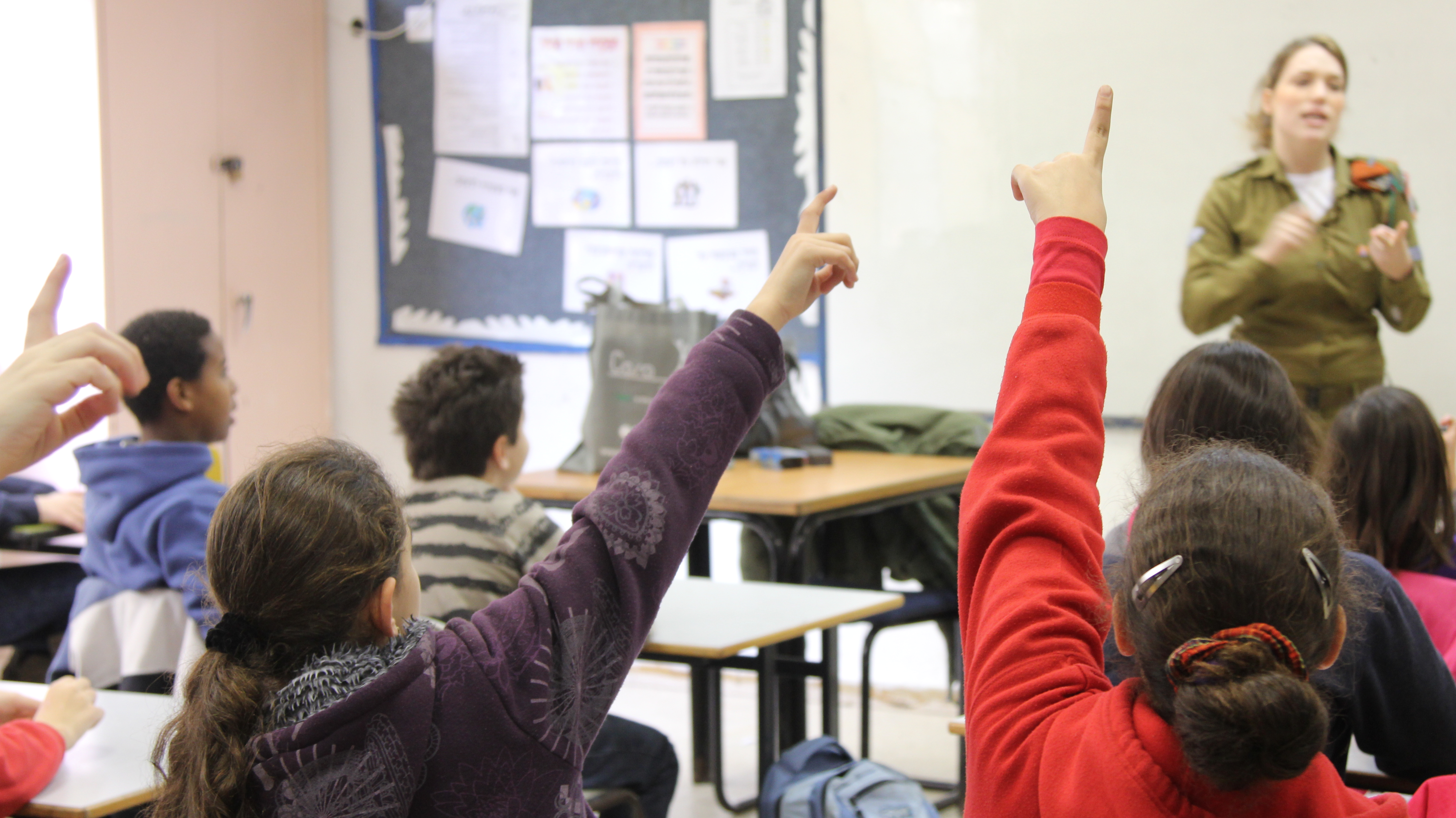 January 19, 2012 Every day, Israeli citizens must cope with the potential daily threat of rocket fire from the Gaza Strip. Just last year, in 2011, Hamas fired 627 rockets and mortars from Gaza into Israel. In order to ensure security for all Israeli civilians, the IDF dispatches Emergency Situations Instructors to day schools, instructing the children how to protect themselves in case of emergency. In the picture is Cpl. Noy Eisen, teaching the children of Holon on proper procedures in emergency situations that can arise in Israel. Watch the IDF Emergency Instructor in action: Preparing the Next Generation: The Work of an IDF Emergency Instructor The Israel Defense Forces Facebook The Israel Defense Forces blog Follow us on Twitter